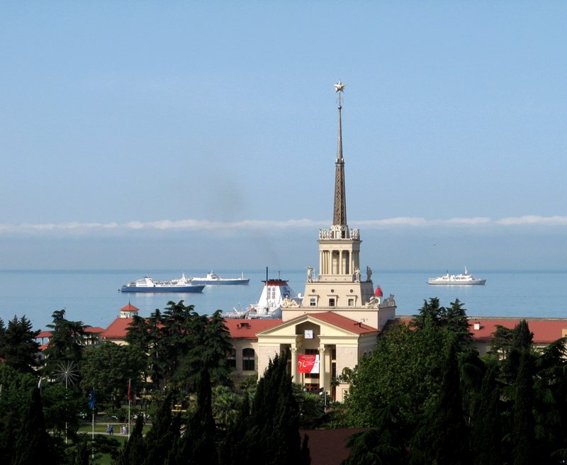 Sochi Sea Port. View from downtown.